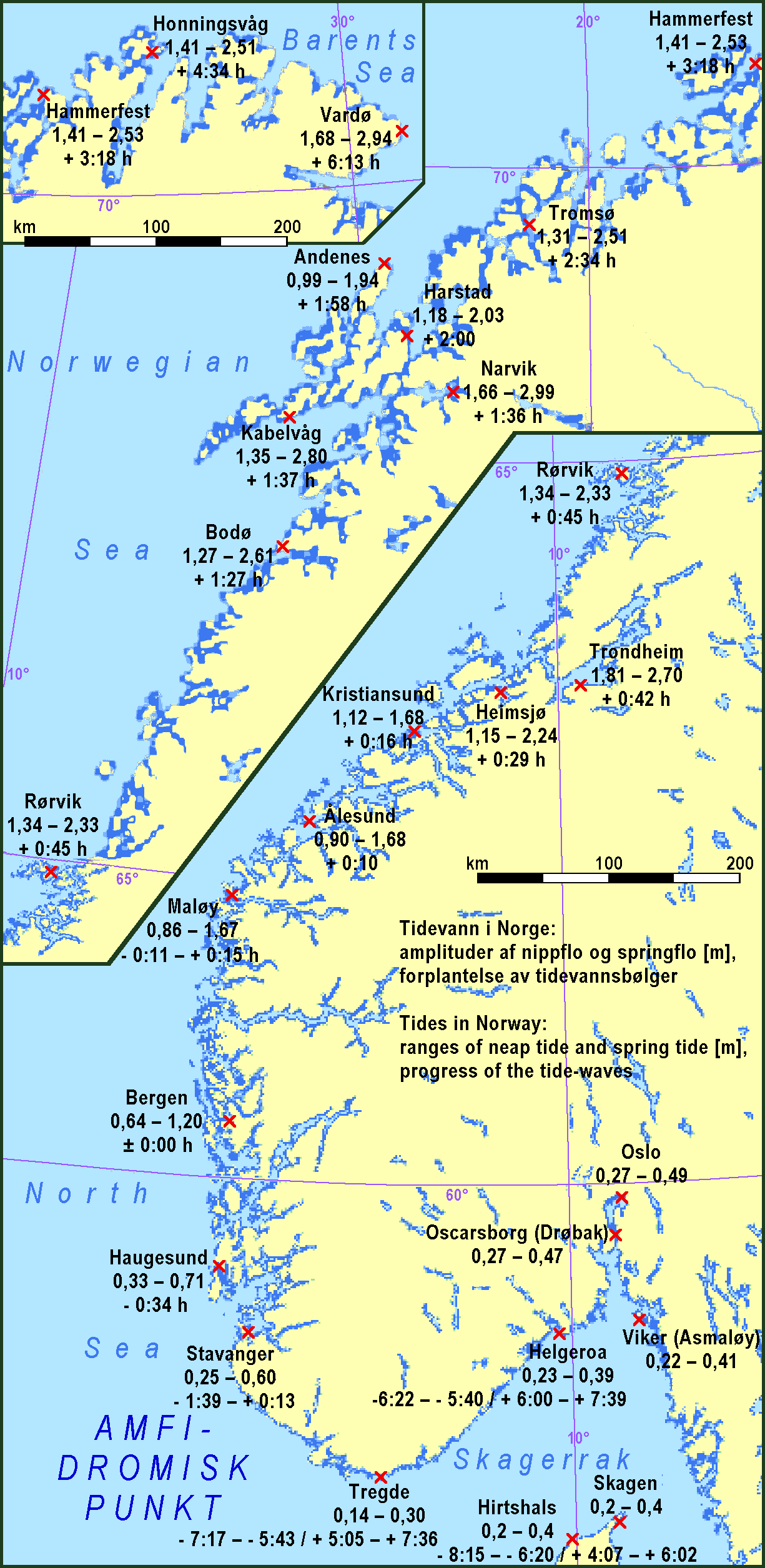 Map of the tides in Norway